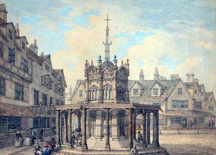 Old Market Cross, Norwich, Thomas Hearne (1744-1817), undated.